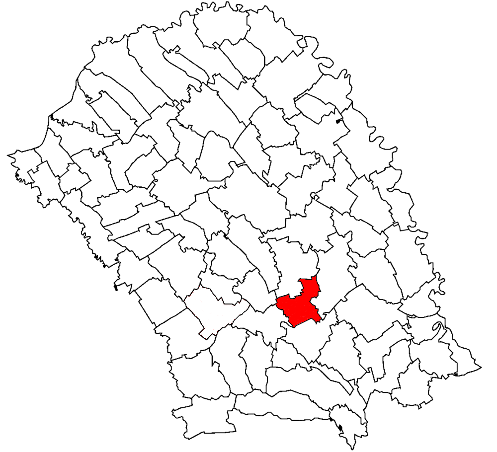 Locator map of the commune of Blândești, Botoșani County, Romania